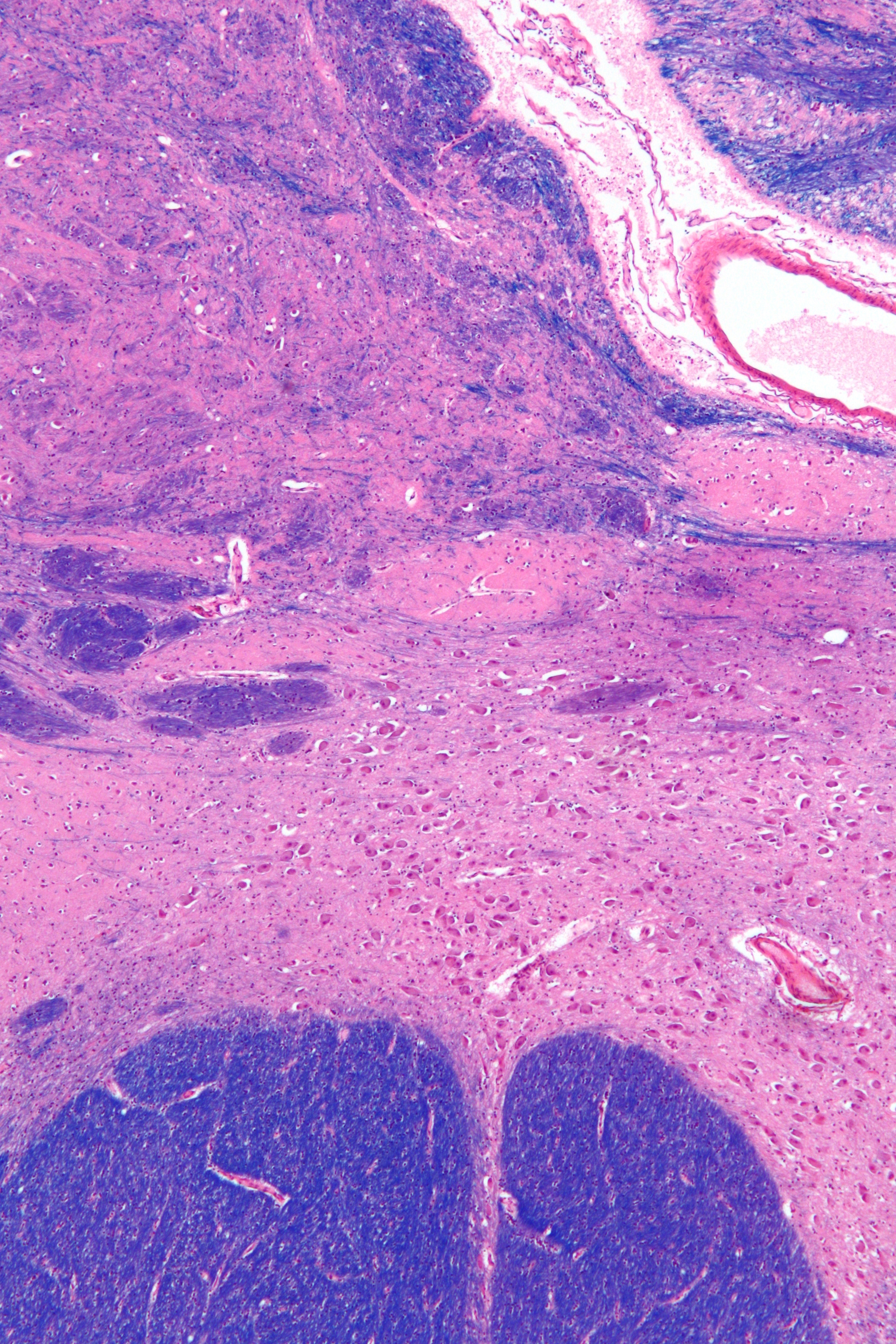 Low magnification micrograph or the nucleus basalis of Meynert, also nucleus basalis. LFB-HE stain. The very low and low magnification section shows the putamen (top-left) and globus pallidus (top-right). See also Substantia innominata. Related images Very low mag. Very low mag. Low mag. Intermed. mag. High mag. Very high mag.